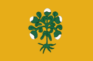 Flag of Maltese City Bormla.